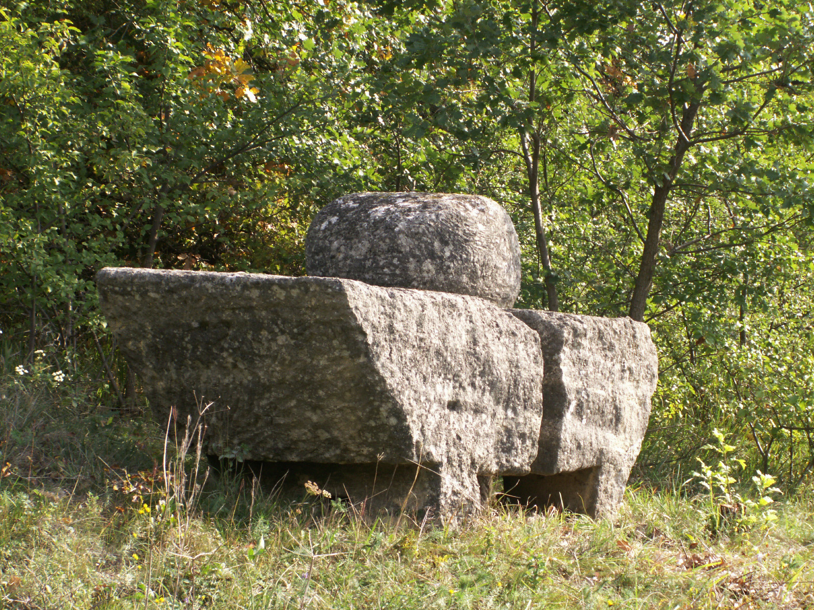 „Symposion Europäischer Bildhauer“, St.Margarethen – Burgenland/Austria, Energie solaire Pierre Szekely, 1962